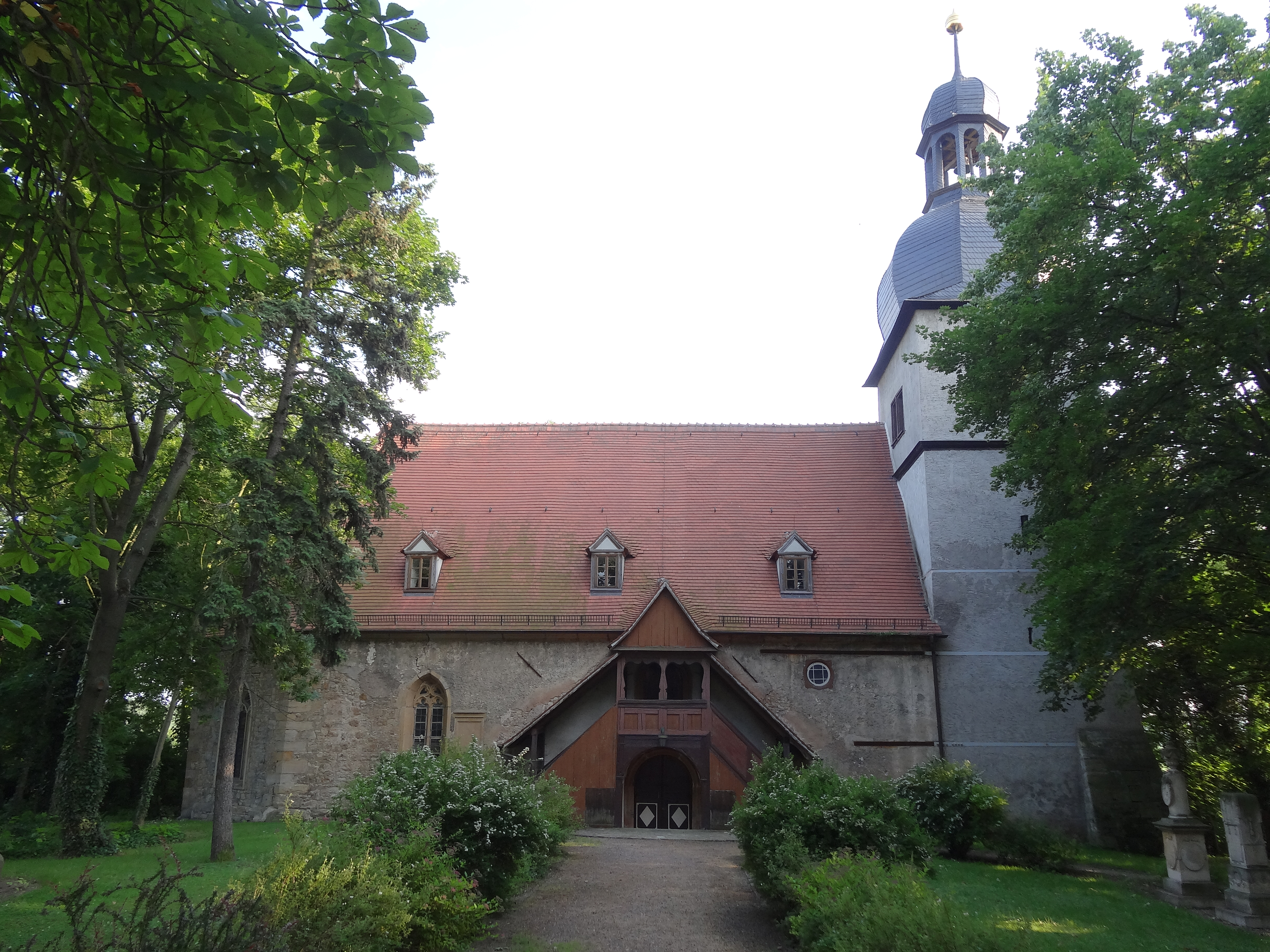 Church in Nöda, Thuringia, Germany